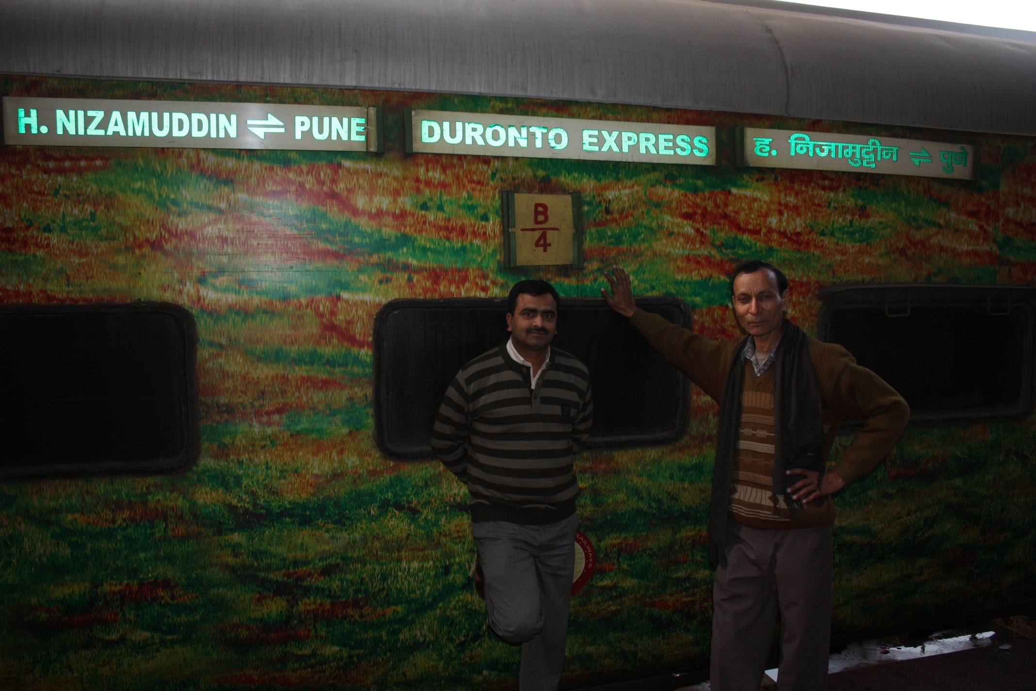 picture of duranto express as seen before departure at nizamuddin station